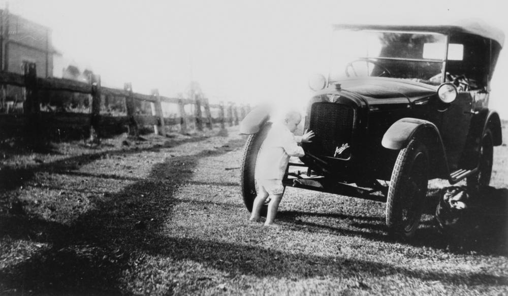 'Baby' Austin and baby Ralph at Caboolture, Queensland, 1928 Baby Ralph Duffield attempting to start an the Austin Seven 'Chummy' tourer. While the tiny four-cylinder engine was easy to turn over compared to a larger car, crank-handle starting was still a problem for many people and required the use of proper technique to avoid a painful or dangerous 'kickback'. This Austin 7 has scuttle-mounted headlamps and a two-piece windscreen indicating it was manufactured between 1922 and 1927.